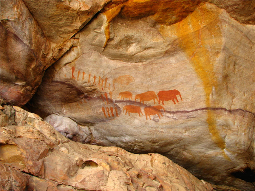 Cave painting created by the San people in the Cederberg Cave near Stadsaal.